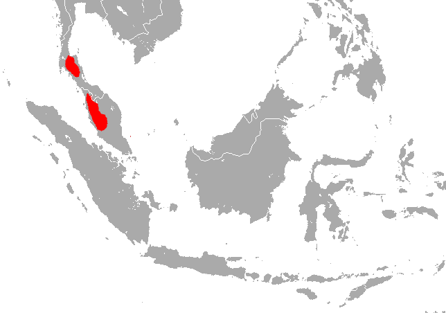 Rhinolophus robinsoni range